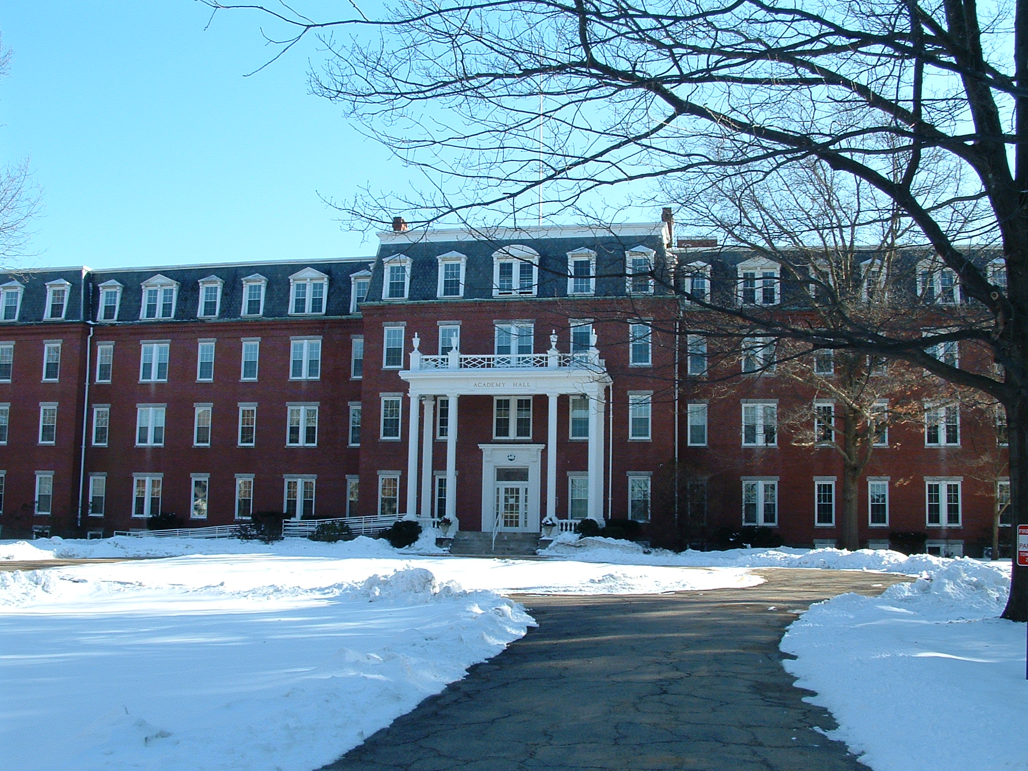 Academy Hall, Northpoint Bible College, Haverhill, Massachusetts